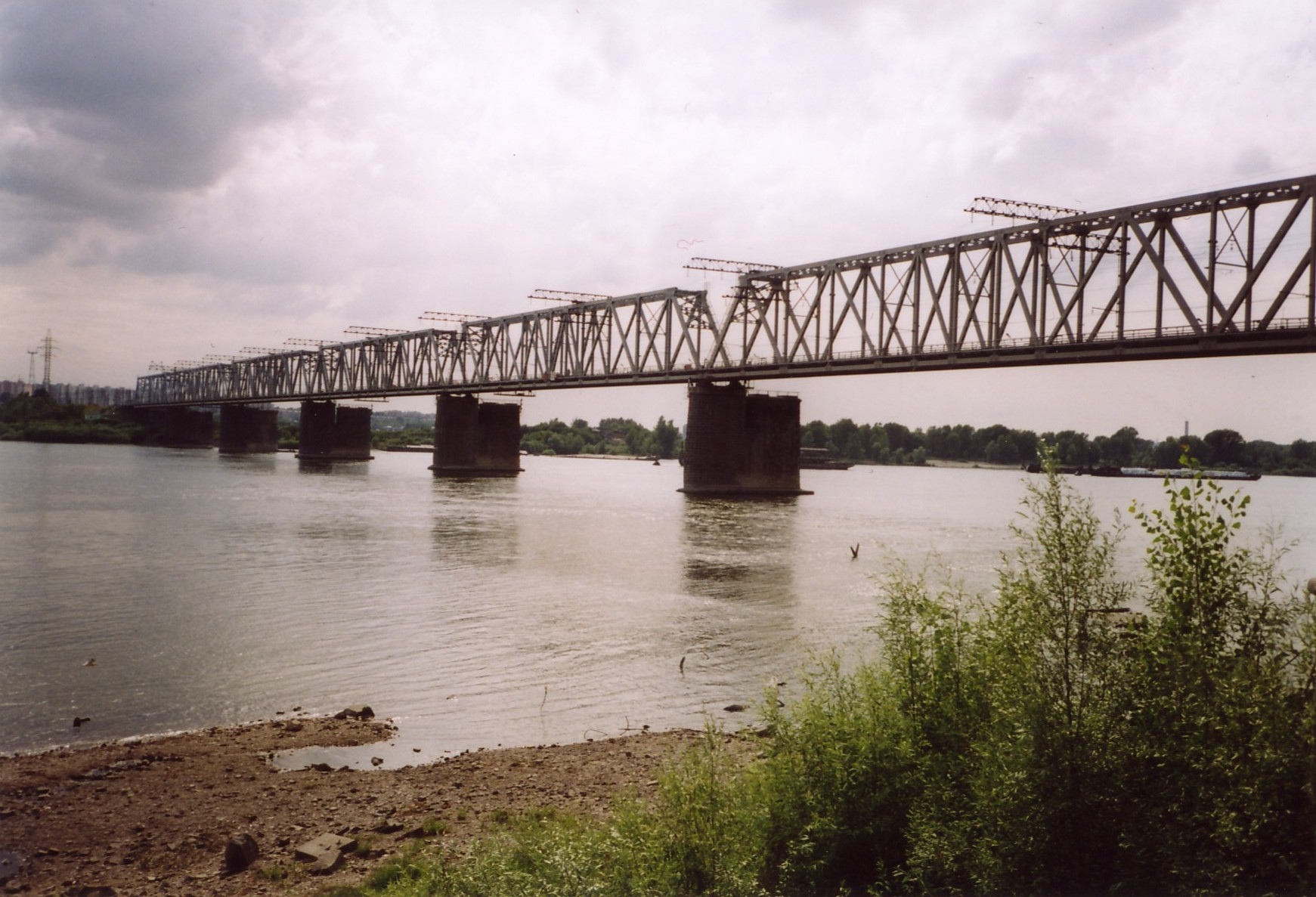 Bridge across Ob River near Novosibirsk (Russia).